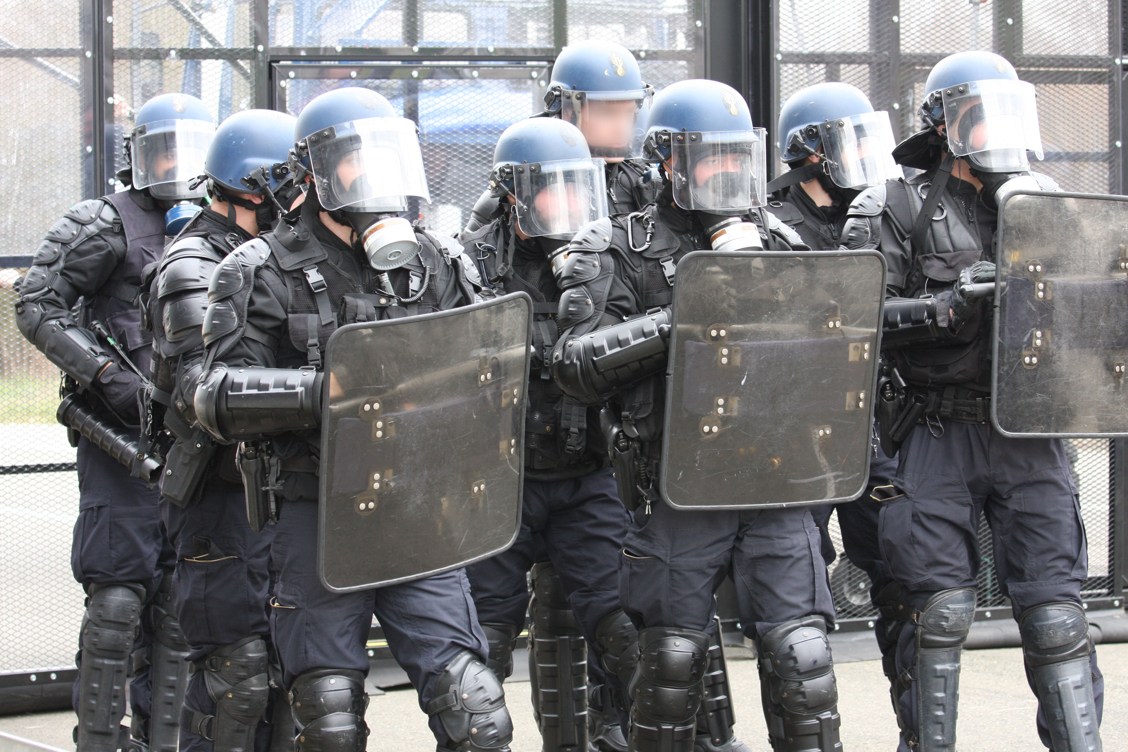 French Mobile Gendarmerie GBGM "Intervention" platoon. practicing riot control.